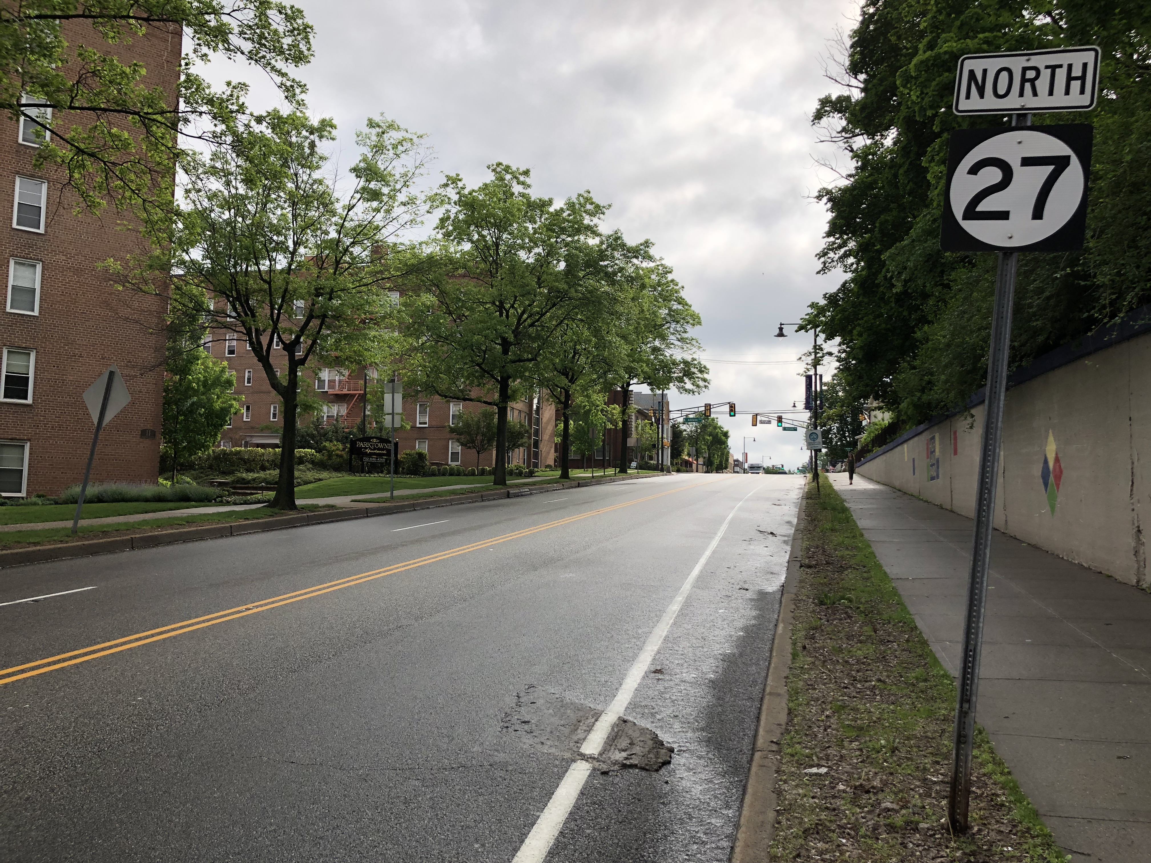 View north along New Jersey State Route 27 and east along Middlesex County Route 514 (Raritan Avenue) at Lincoln Avenue in Highland Park, Middlesex County, New Jersey